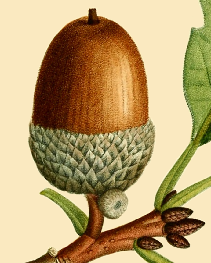 Quercus montana - Captioned: Chestnut White Oak. Quercus Pus. palustris [Q. prinus var. palustris] - acorn detail